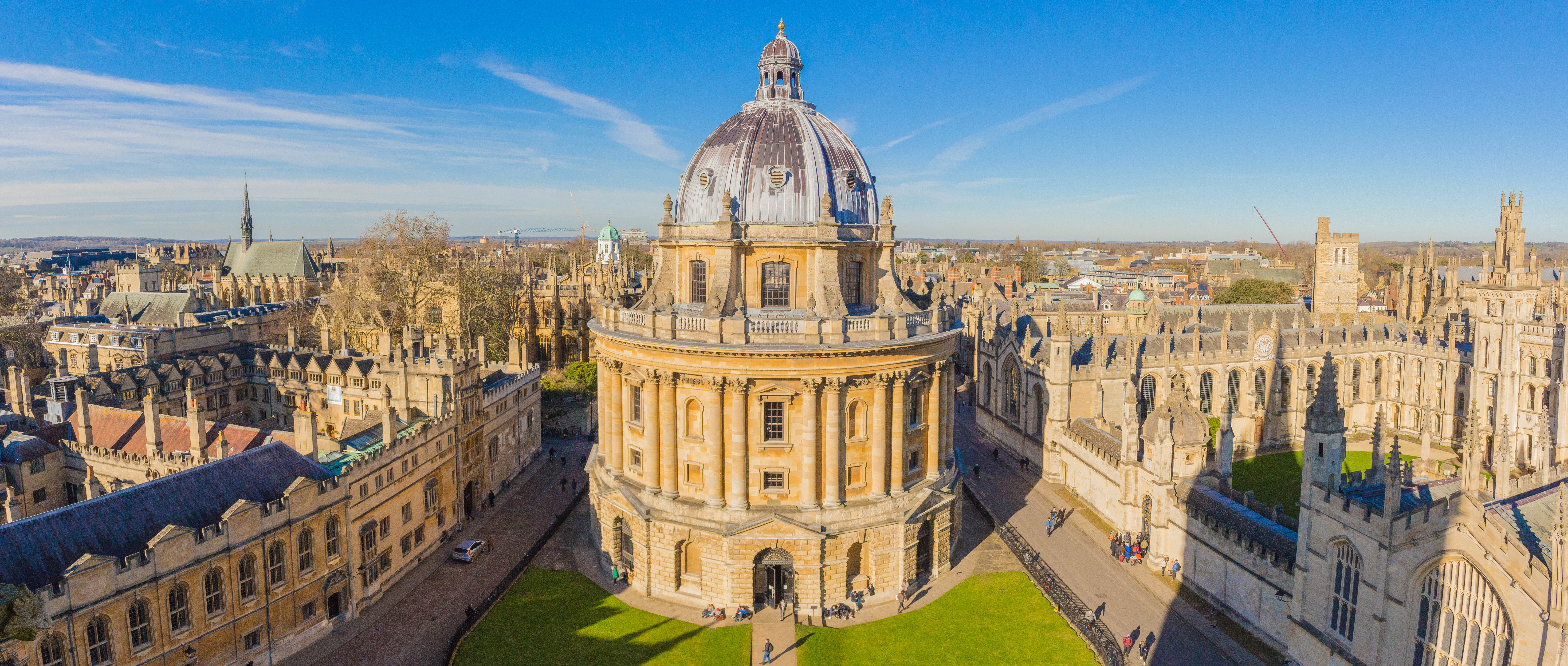 Radcliffe Camera Panaroma